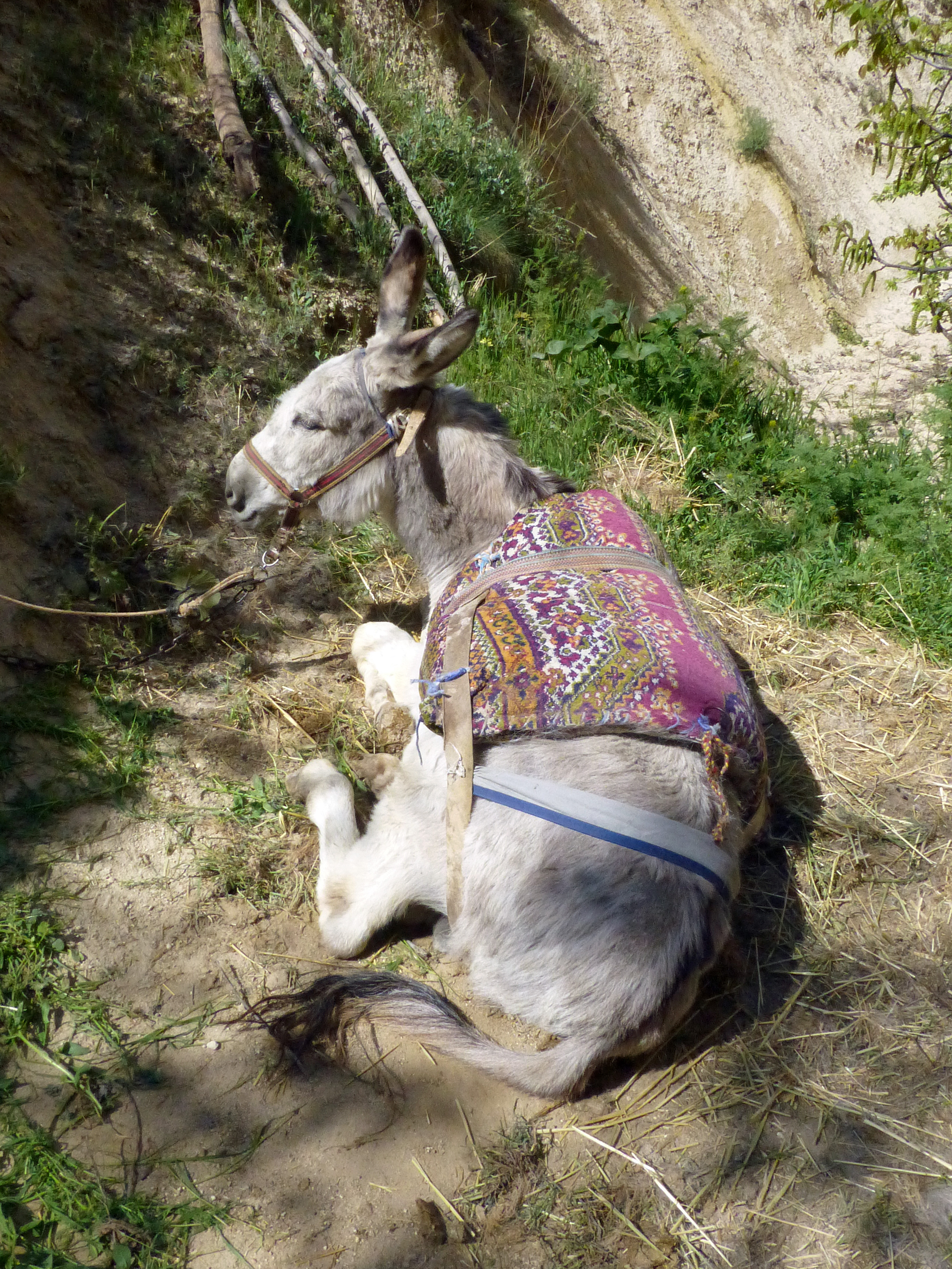 Donkey in Red Valley (Kızılçukur Vadisi), Cappadocia, Turkey